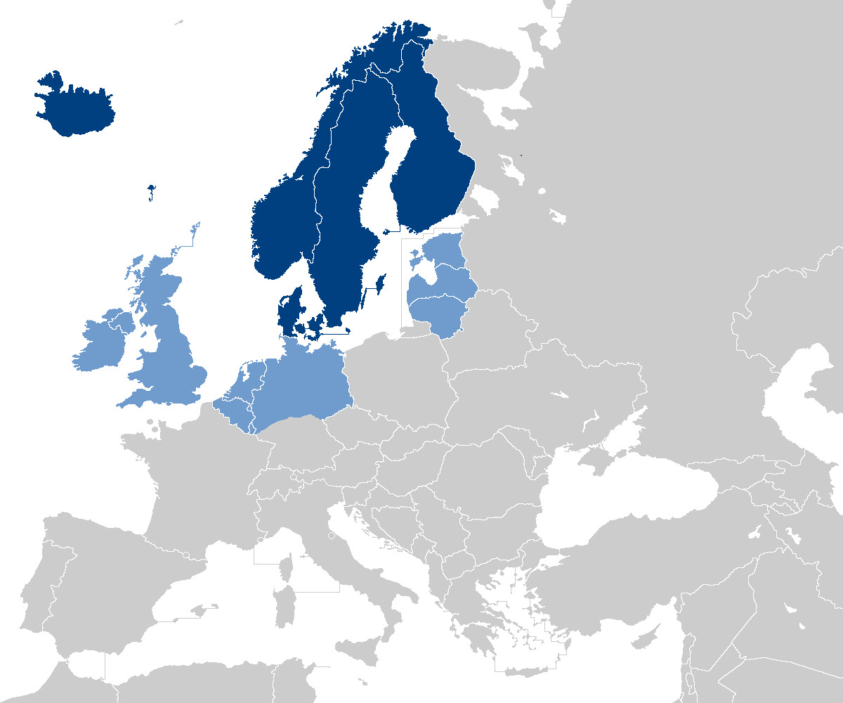 Northern Europe